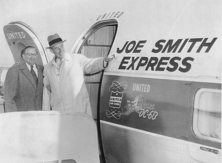 Publicity photo of Adlai Stevenson and campaign supporter Joe Smith of Chicago at O'Hare Airport. Stevenson and Smith were leaving for four days of campaigning in the Pacific Northwest and California on the United Air Lines plane, the "Joe Smith Express". This was the US Presidential campaign of 1956.